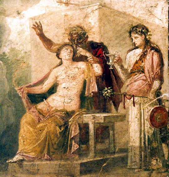 Silenus & Hermaphroditus with a maenad (holding a thyrsos and kantharos). Tablinum of IX.1.22, House of M. Epidi Sabini, Pompeii 50-75 AD